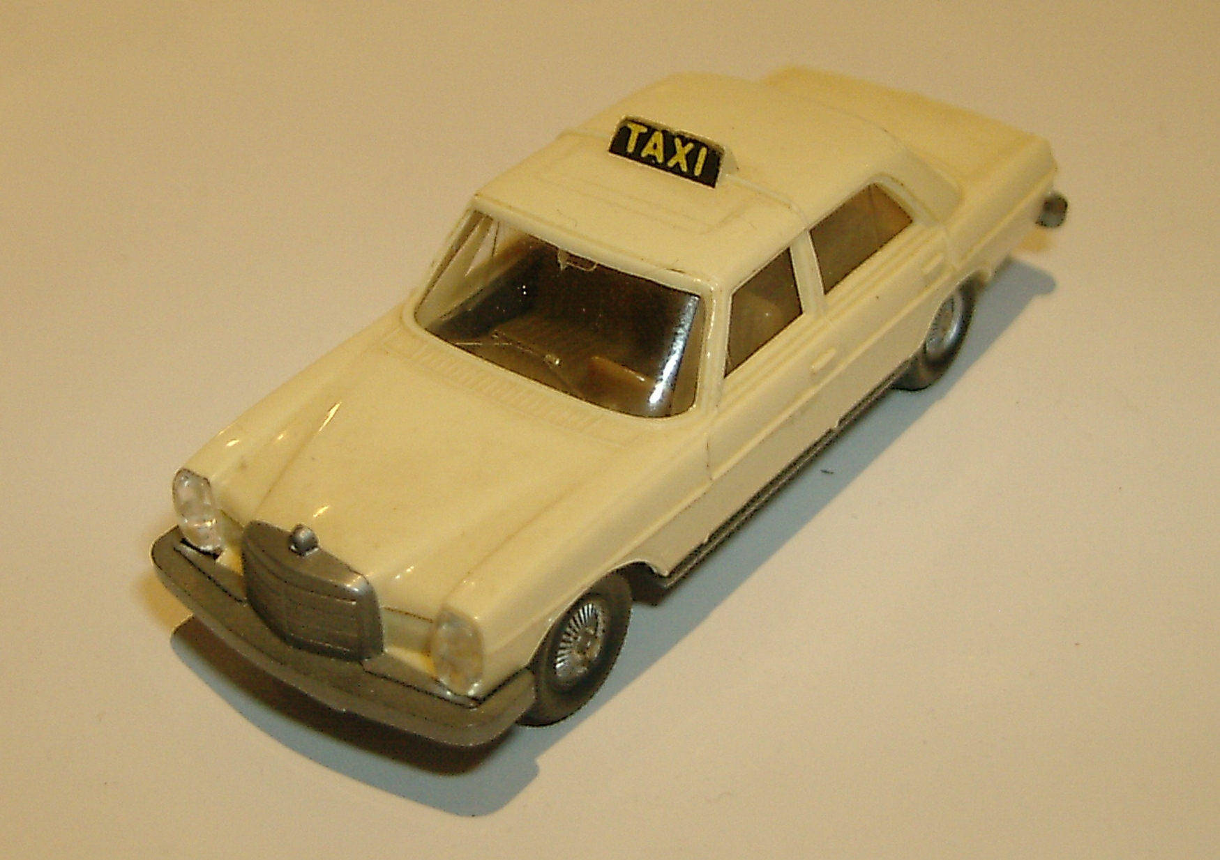 Wiking Modell Mercedes Taxi